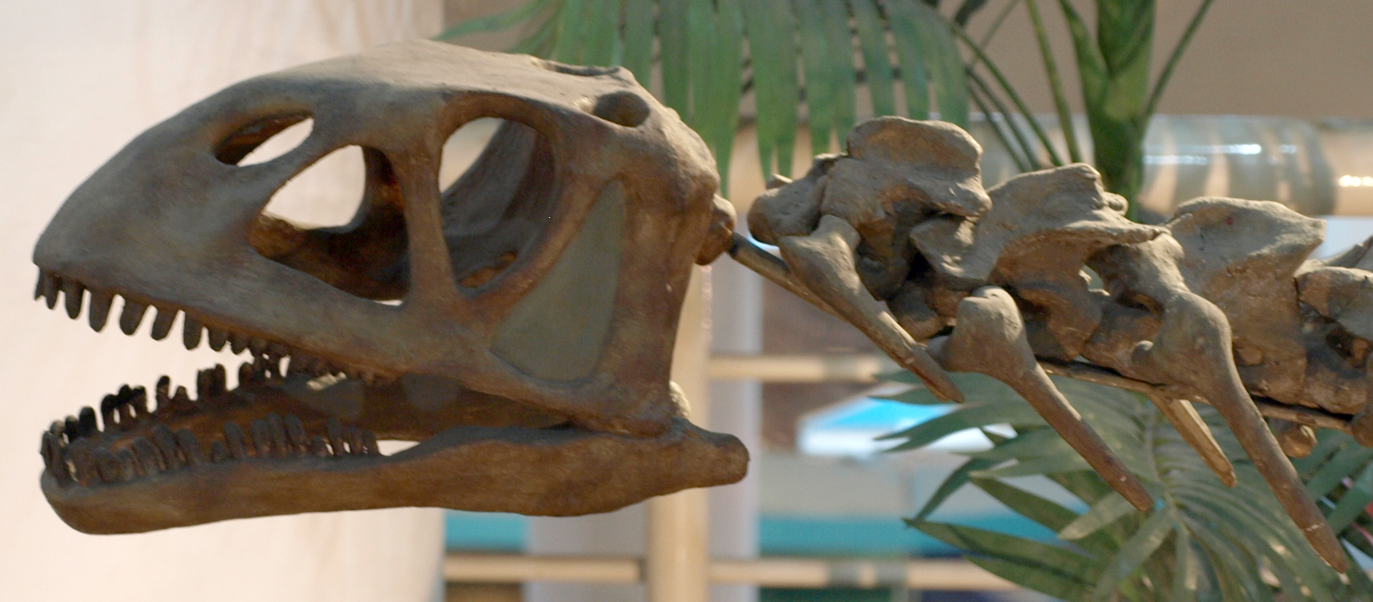 Fossil skull of a Bellusaurus sui on display at the Paleozoological Museum of China.